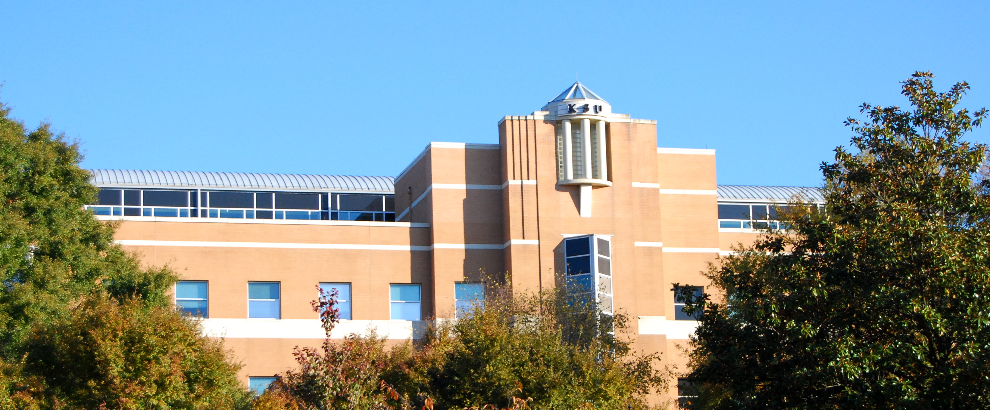 Kennesaw State University Burruss Building taken from the campus green.